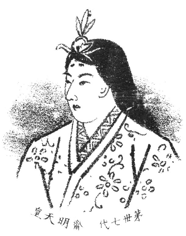 Empress Kōgyoku (Saimei) (594–661, reigned 642–45 and 655–61)